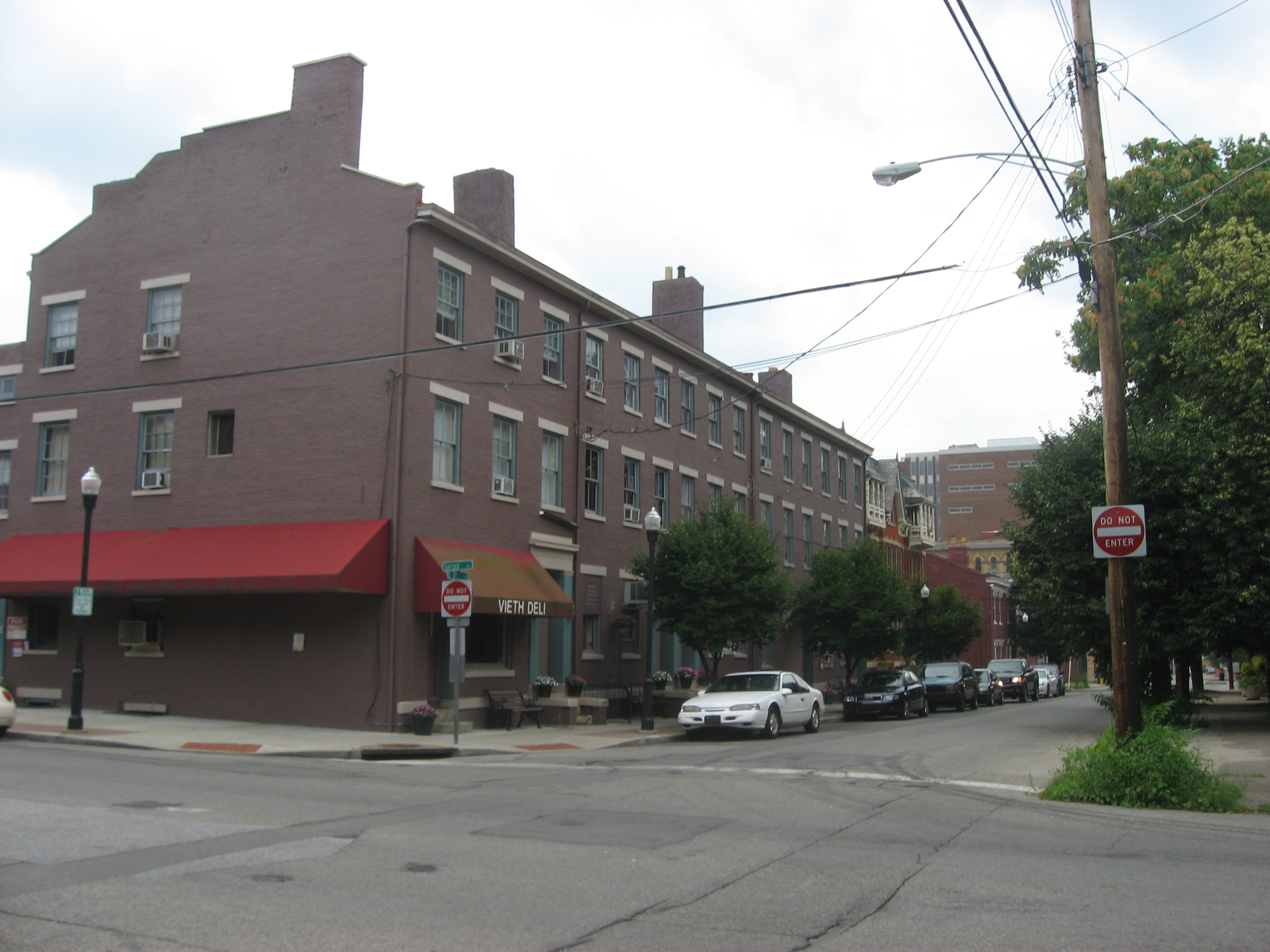 Houses on the southern side of Third Street in Covington, Kentucky, United States, looking westward from the Garrard Street intersection. This block is part of the Riverside Drive Historic District, a historic district that is listed on the National Register of Historic Places.